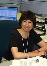 Dr. Leslie Ungerleider, #NIMH, studies how the brain processes visual information. She co-discovered that two pathways are at work when you look at something. One pathway recognizes what you are looking at, and the other pathway locates where the object is in space; neuroscientists call these the “what and where” pathways. Ungerleider was elected to the National Academy of Sciences, in 2000.